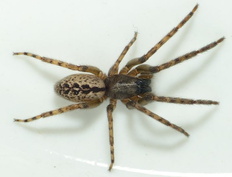 Segestria bavarica. Location: Rhenen - Blauwe Kamer - Gelderland (The Netherlands)